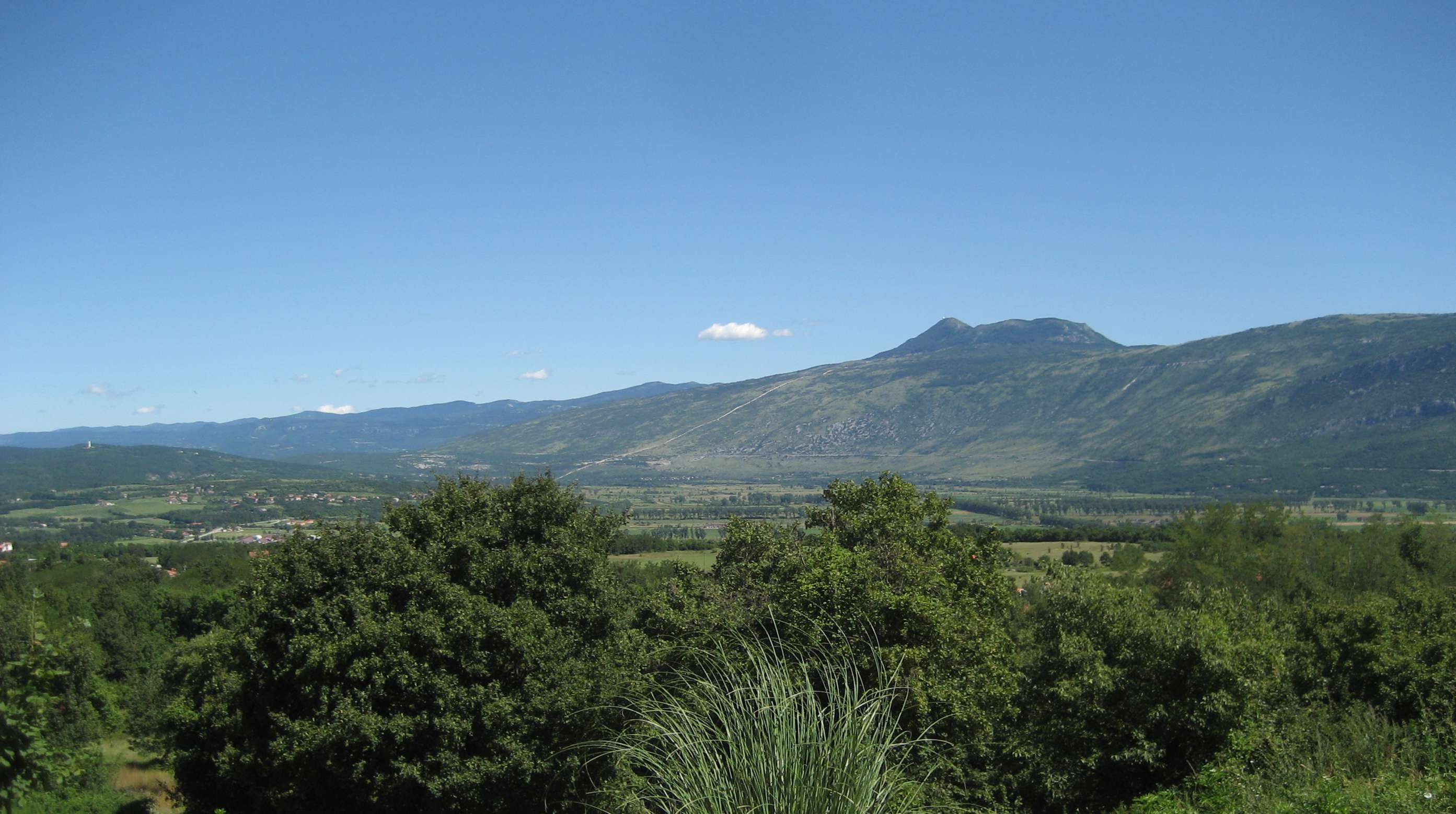 Ucka mountain in Croatia, view from west